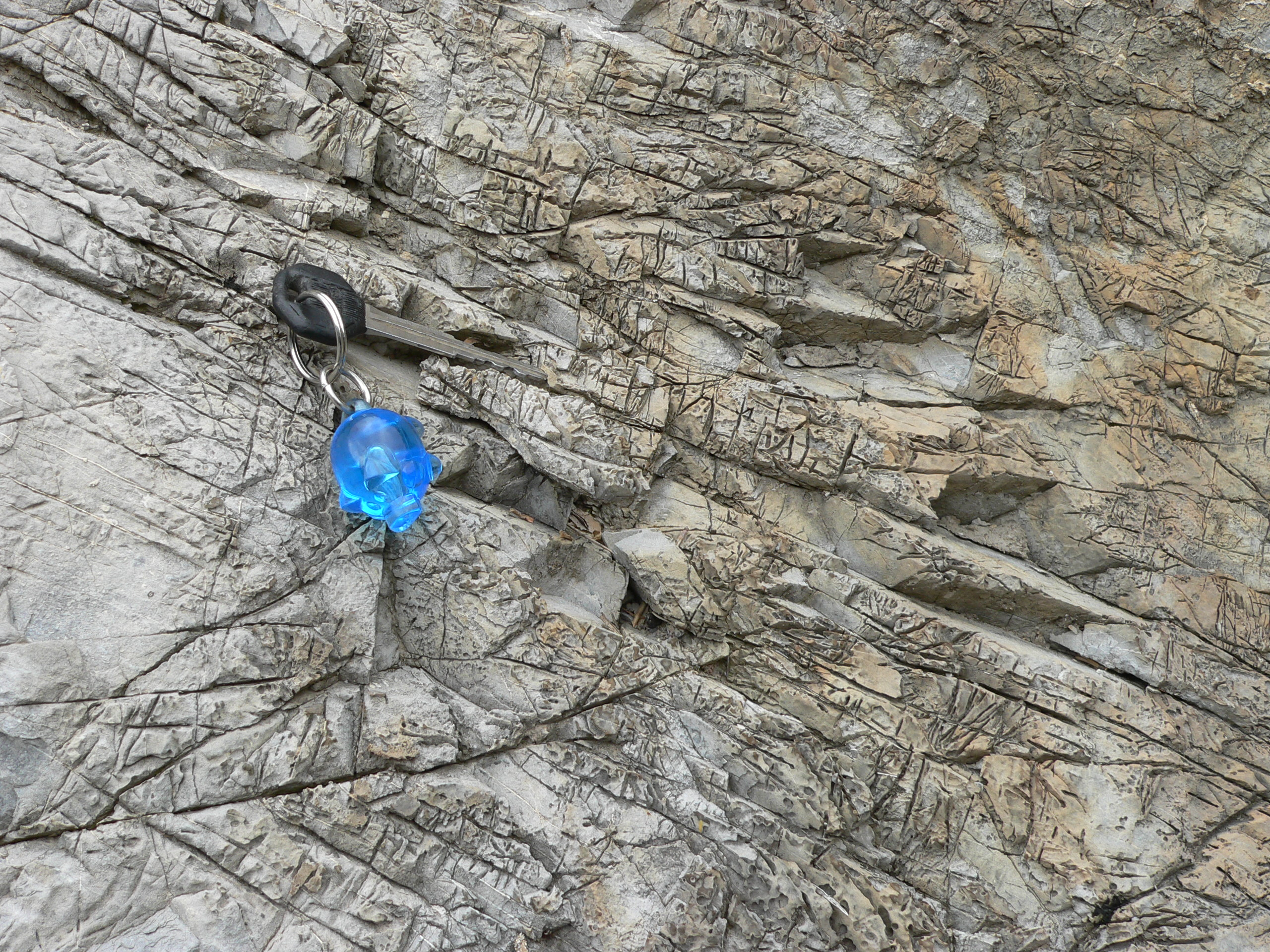 Chemical weathering (natural “etching”) of limestone, Gorges du Guil, french Alpes.